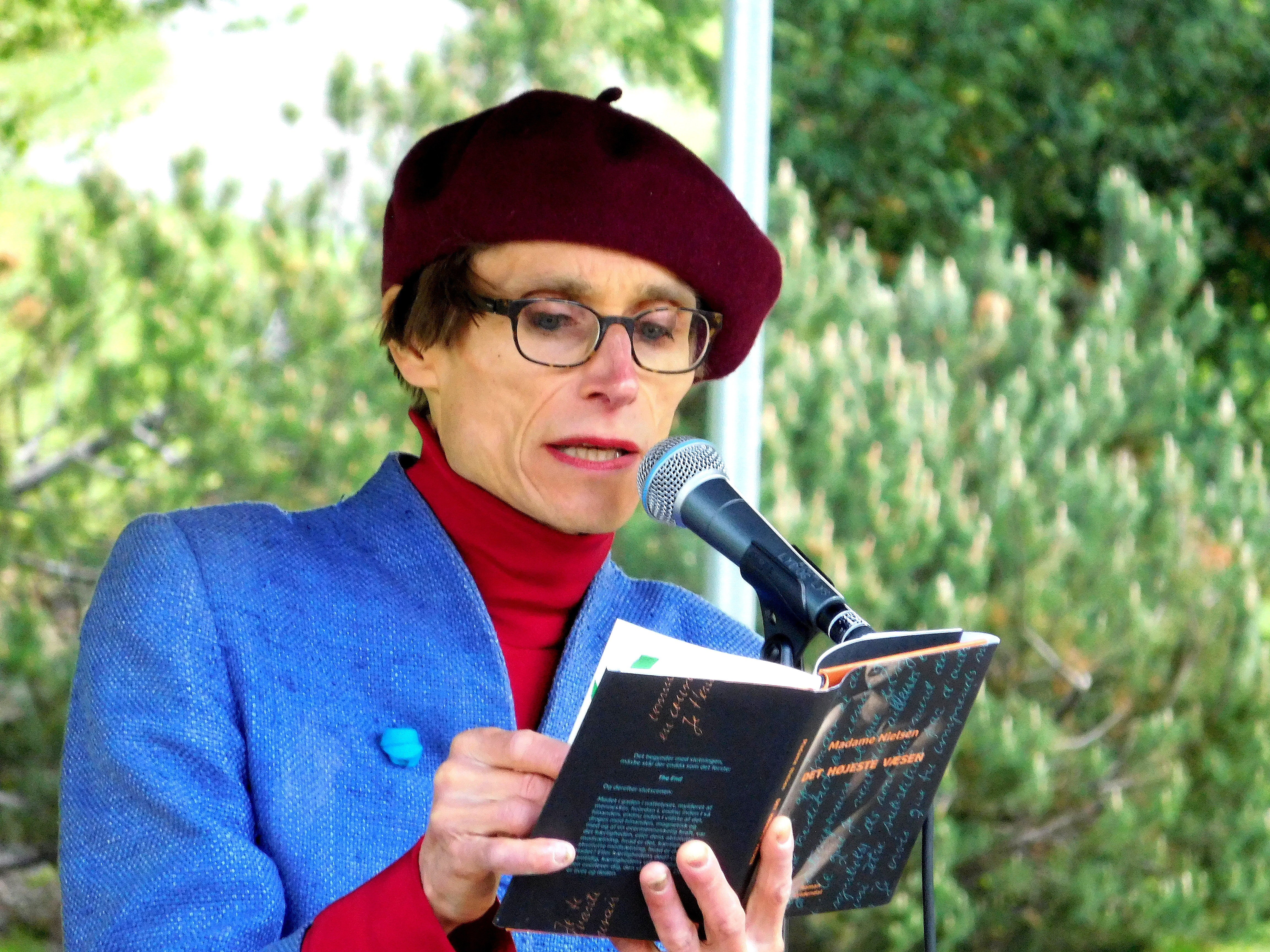 Danish author Madame Nielsen, formerly known as Claus Beck-Nielsen (* 1963), Das Beckwerk etc.